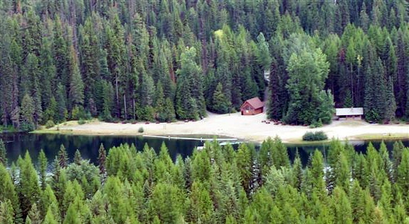 Photo by Felicity Ross. Sent to Roland Neave (contributor to Champion Lakes article) with request to add photo. Summary Photo by Felicity Ross. Sent to Roland Neave (contributor to Champion Lakes article) with request to add photo.